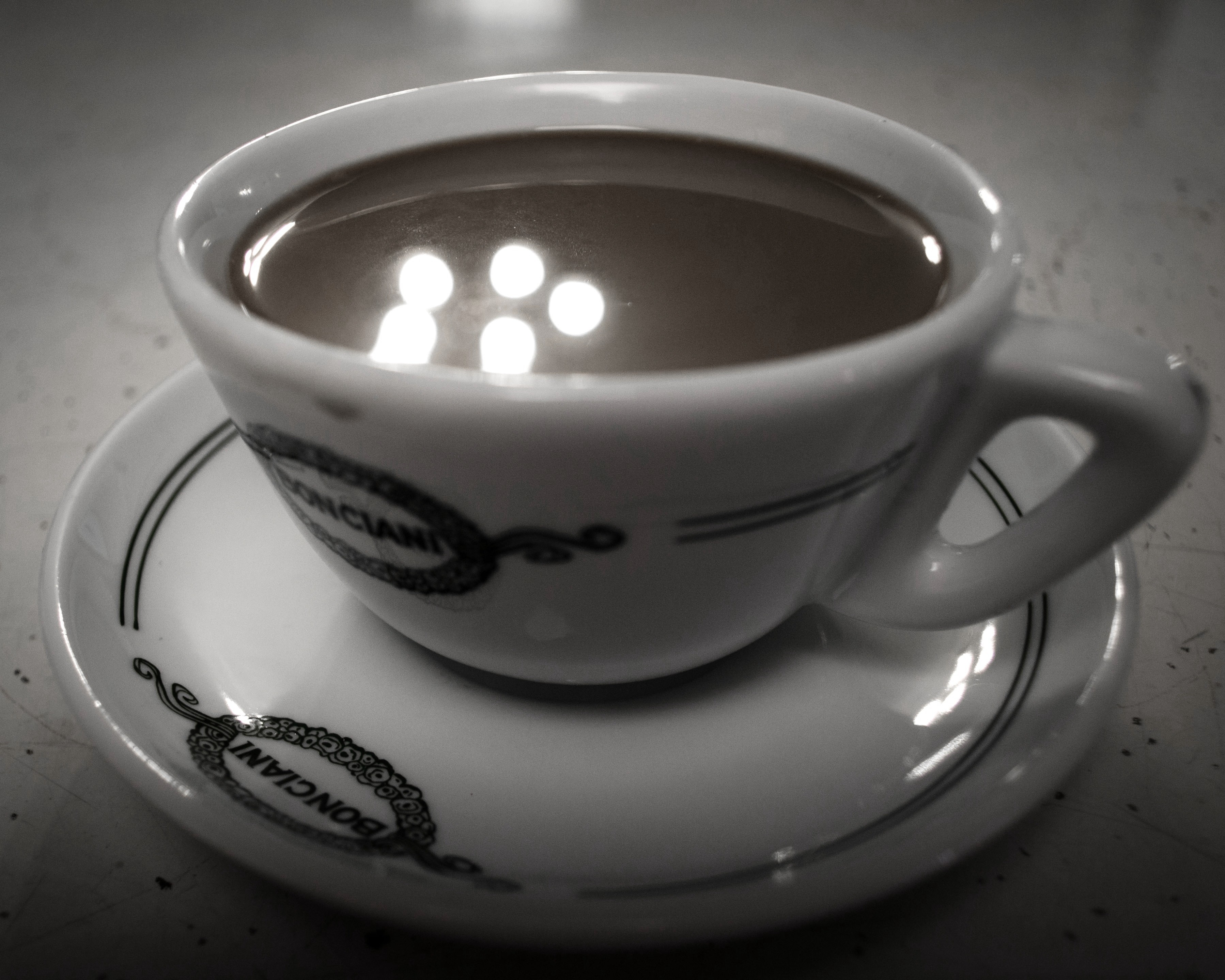 A cup of Italian coffee